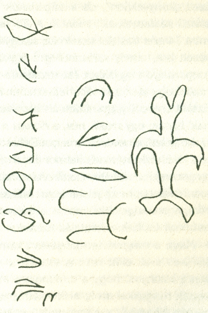 Signatures of Rapanui people on the Spanish annexation document from 1770